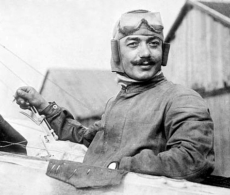 French aviator Adolphe Pégoud (1889-1915)